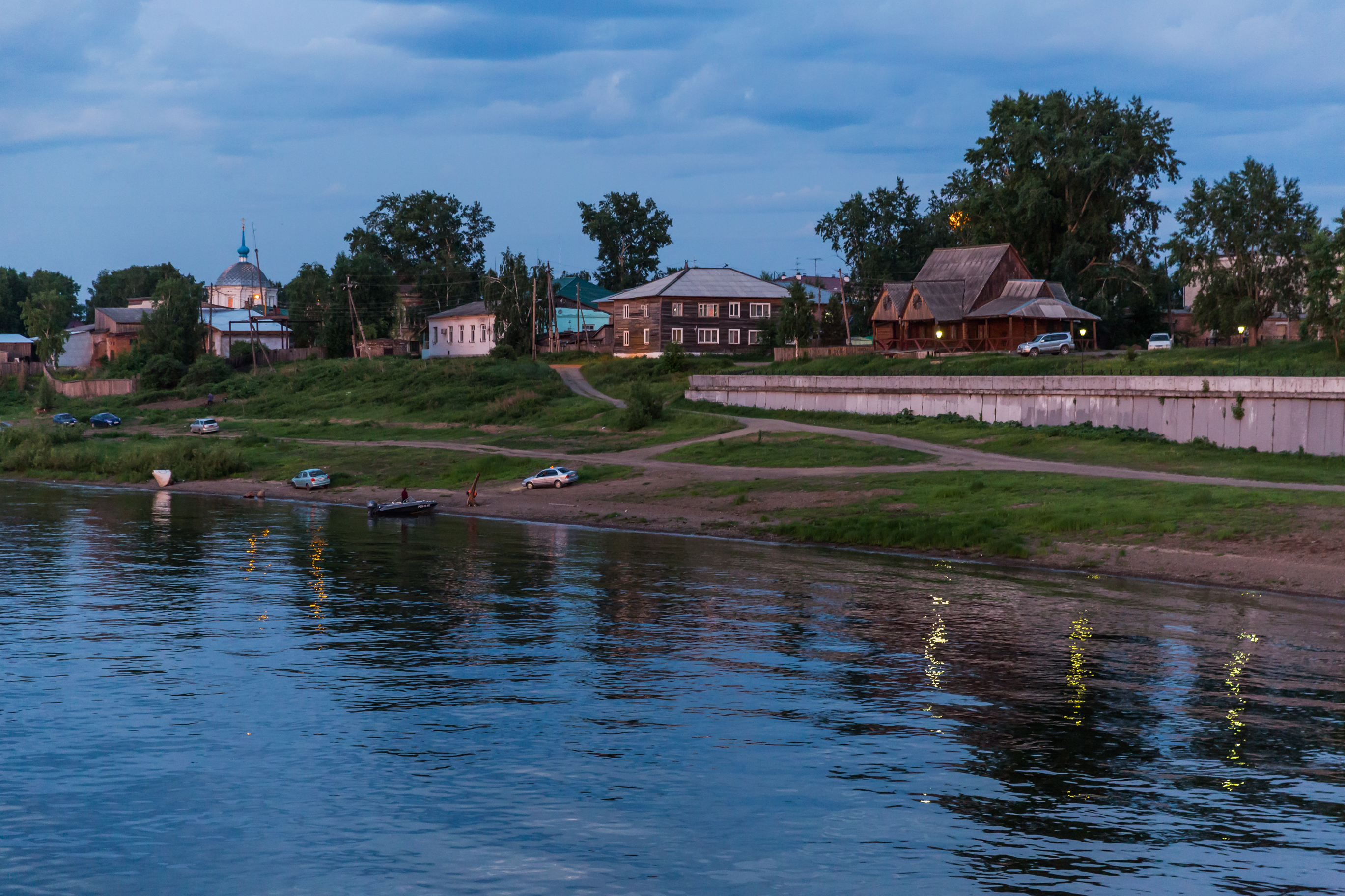 Yeniseisk